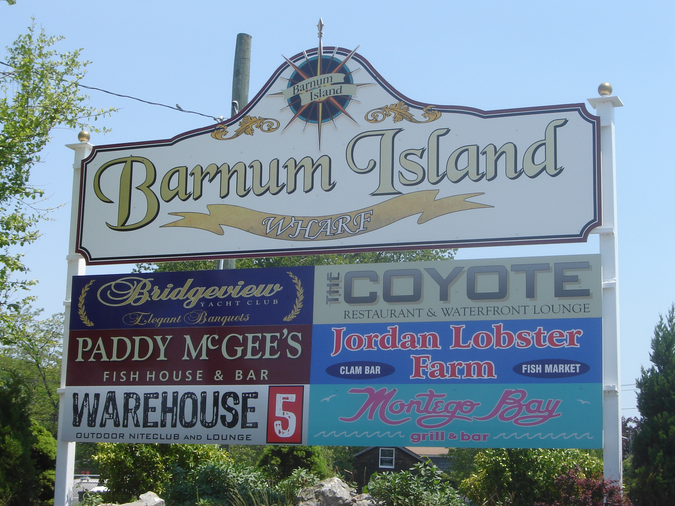 Welcome to Barnum Island Wharf sign in Barnum Island, New York.